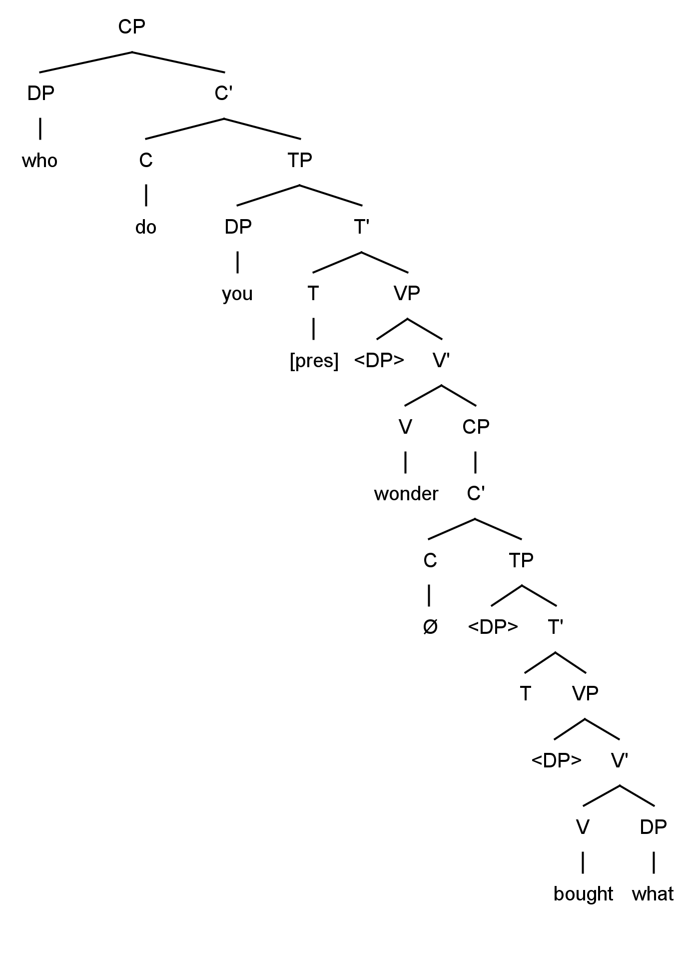 Syntactic tree demonstrating movement wh-island constraint